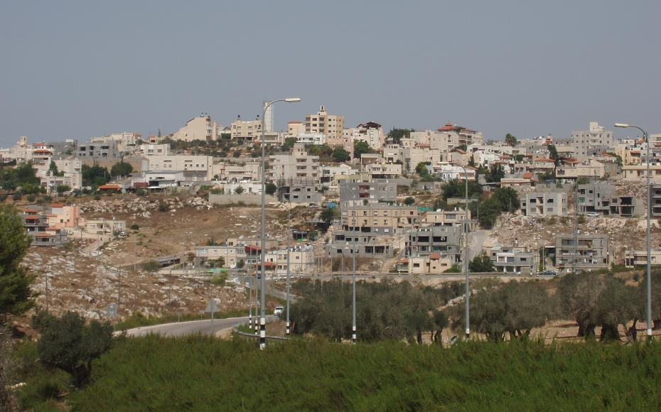 A view of Shefa-'Amr